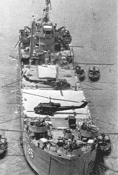 The U.S. Navy patrol craft tender USS Garrett County (AGP-786) at anchor in the Mekong Delta, South Vietnam. On her deck are two U.S. Navy Bell UH-1E Hueys of Helicopter Attack (Light) Squadron 3 "Seawolves" Detatchments 4 or 6 assigned to Garrett County.